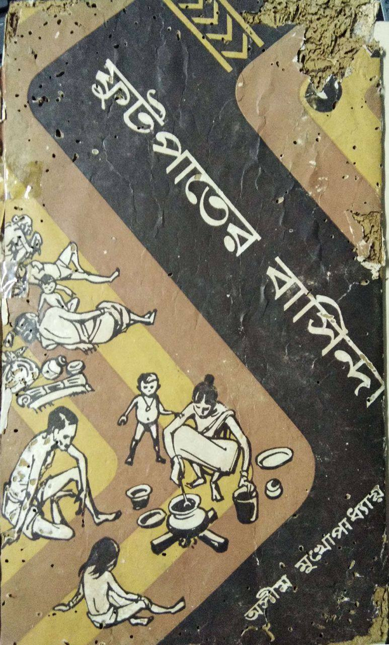 Pavement Dwellers: filmed by internationally acclaimed director Mrinal Sen.